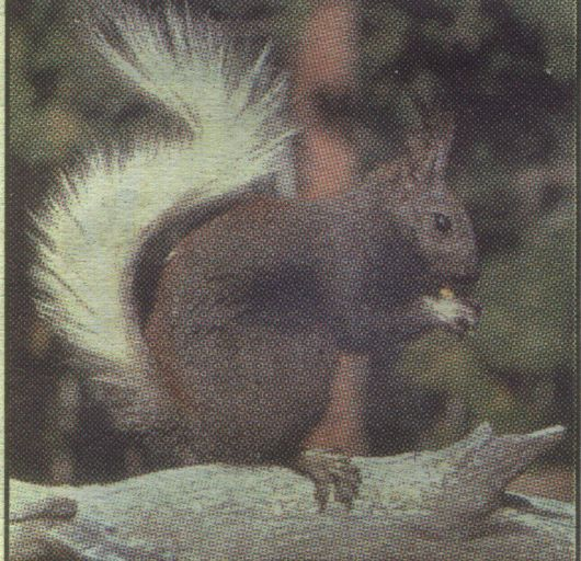 Kaibab squirrel photo